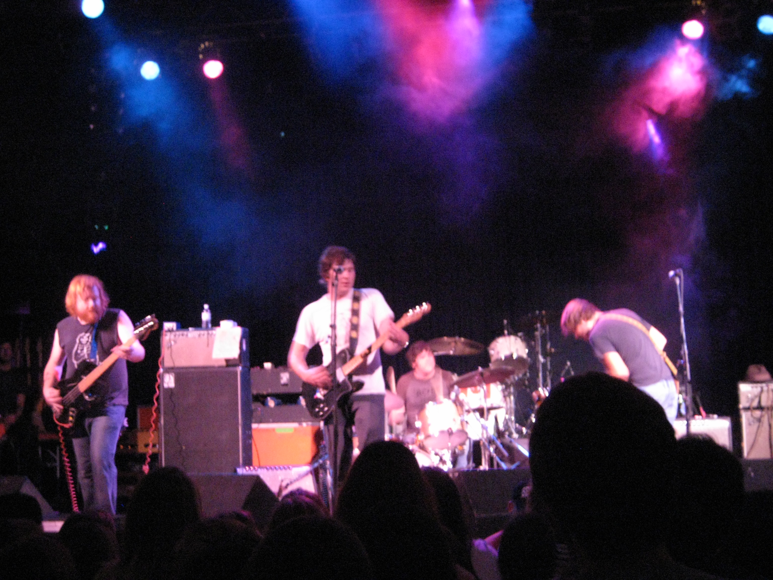 Limbeck in concert at The Opera House in Toronto